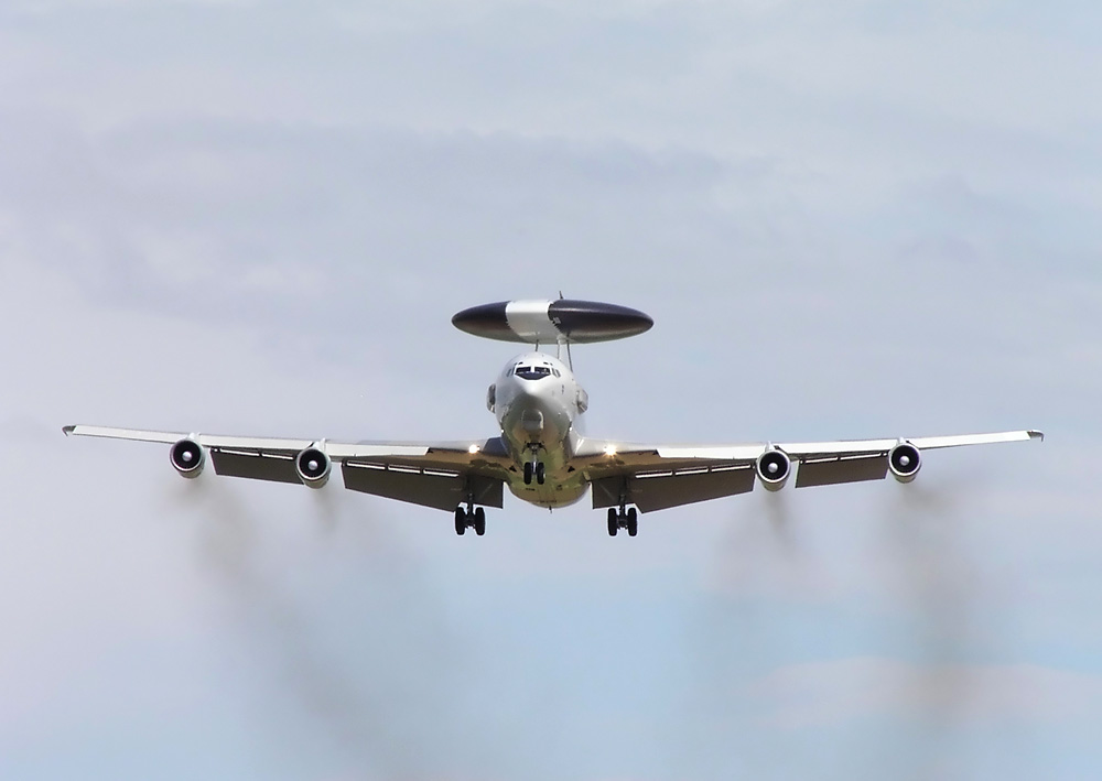 Boeing E-3A NATO-AWACS (LX-N90451) approaching Geilenkirchen Air Base, Germany (ETNG).